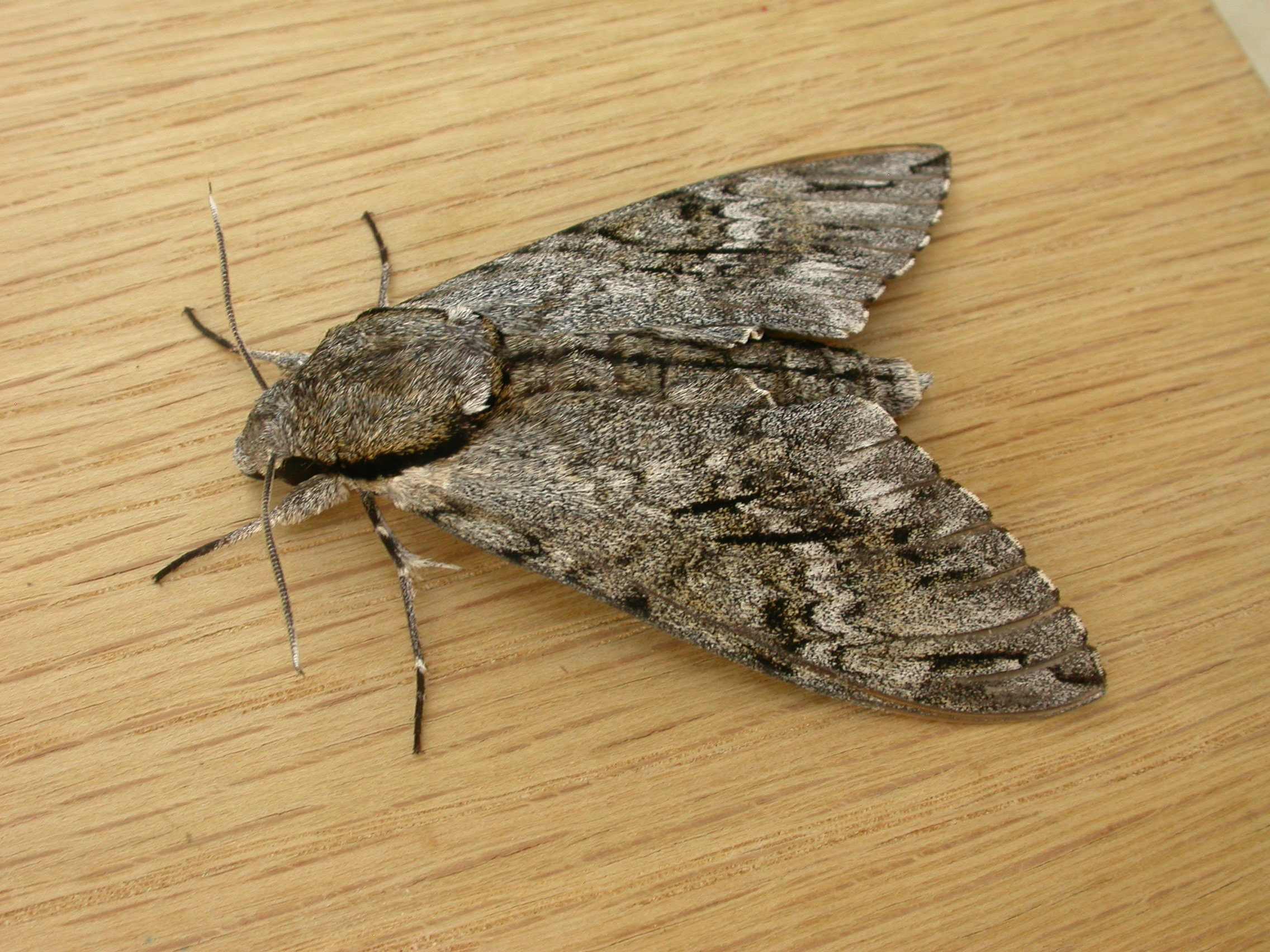 Psilogramma menephron (Cramer, 1780), to MV light, Aranda, ACT, 30/31 January 2009